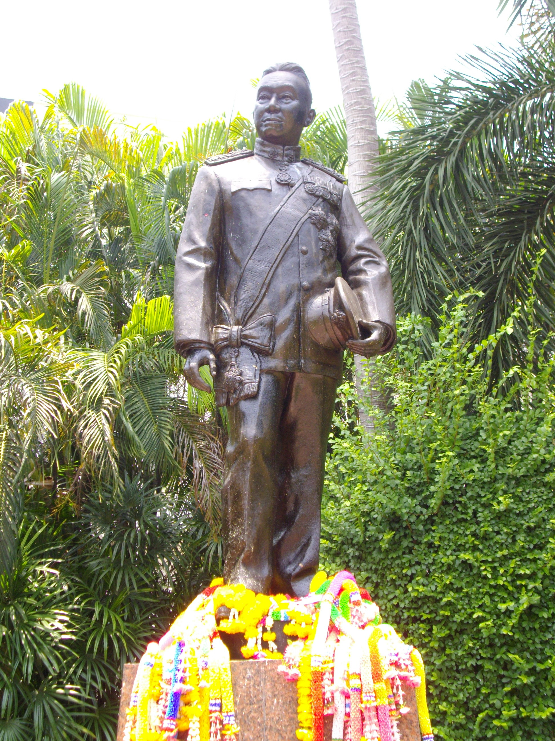 Monument of Luang Ingasrikasikan (หลวงอิงคศรีกสิการ), situated in front of Kasetrathikarn Institute, inside Kasetsart University, Bangkok, Thailand.